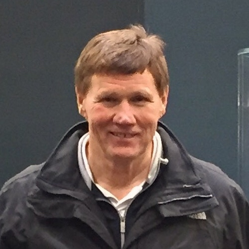 Green Bay Packers president and CEO Mark Murphy